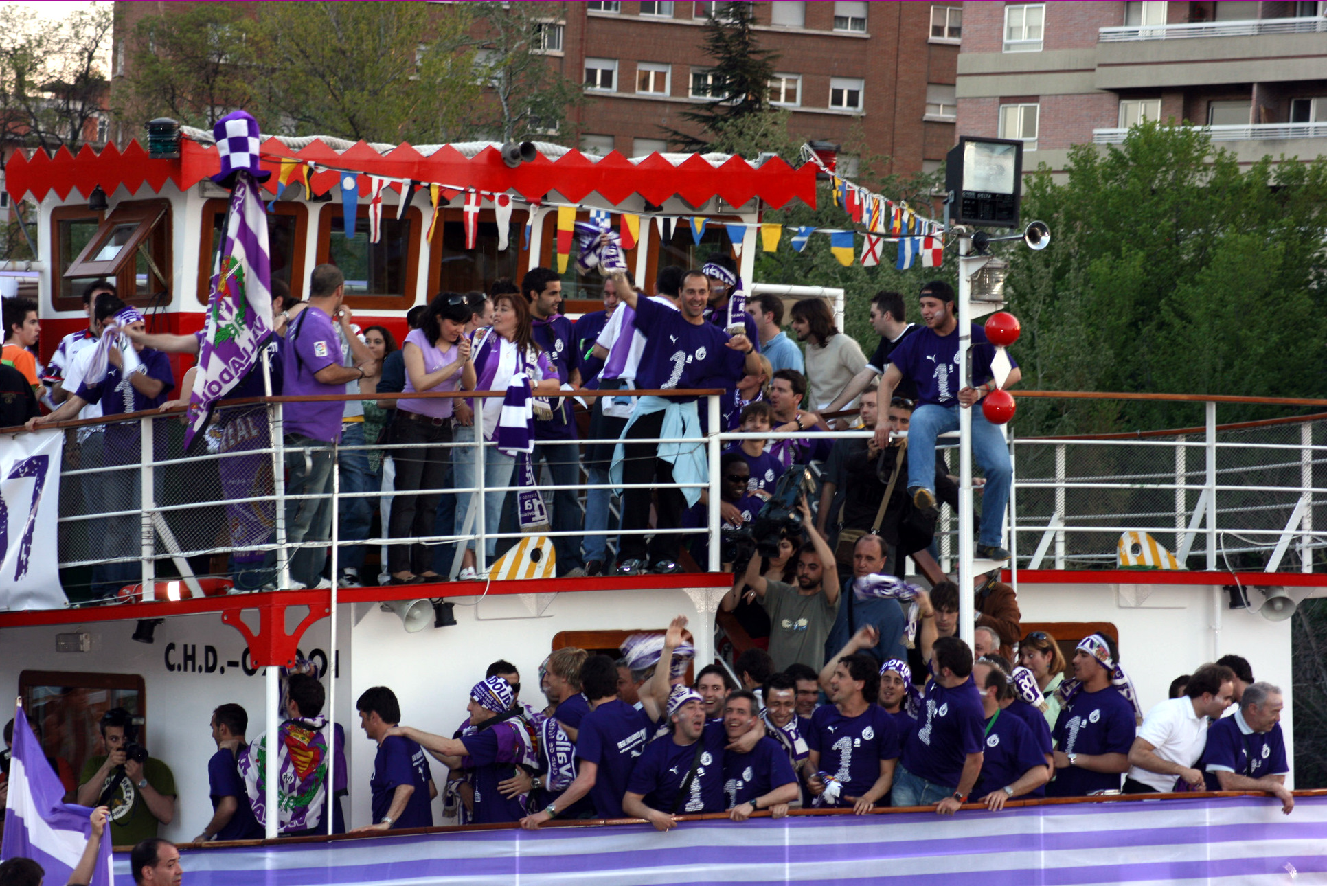 Real Valladolid players celebrating the 2007 promotion to La Liga in Pisuerga River.